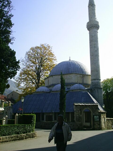 City of Mostar, southern Bosnia and Herzegovina